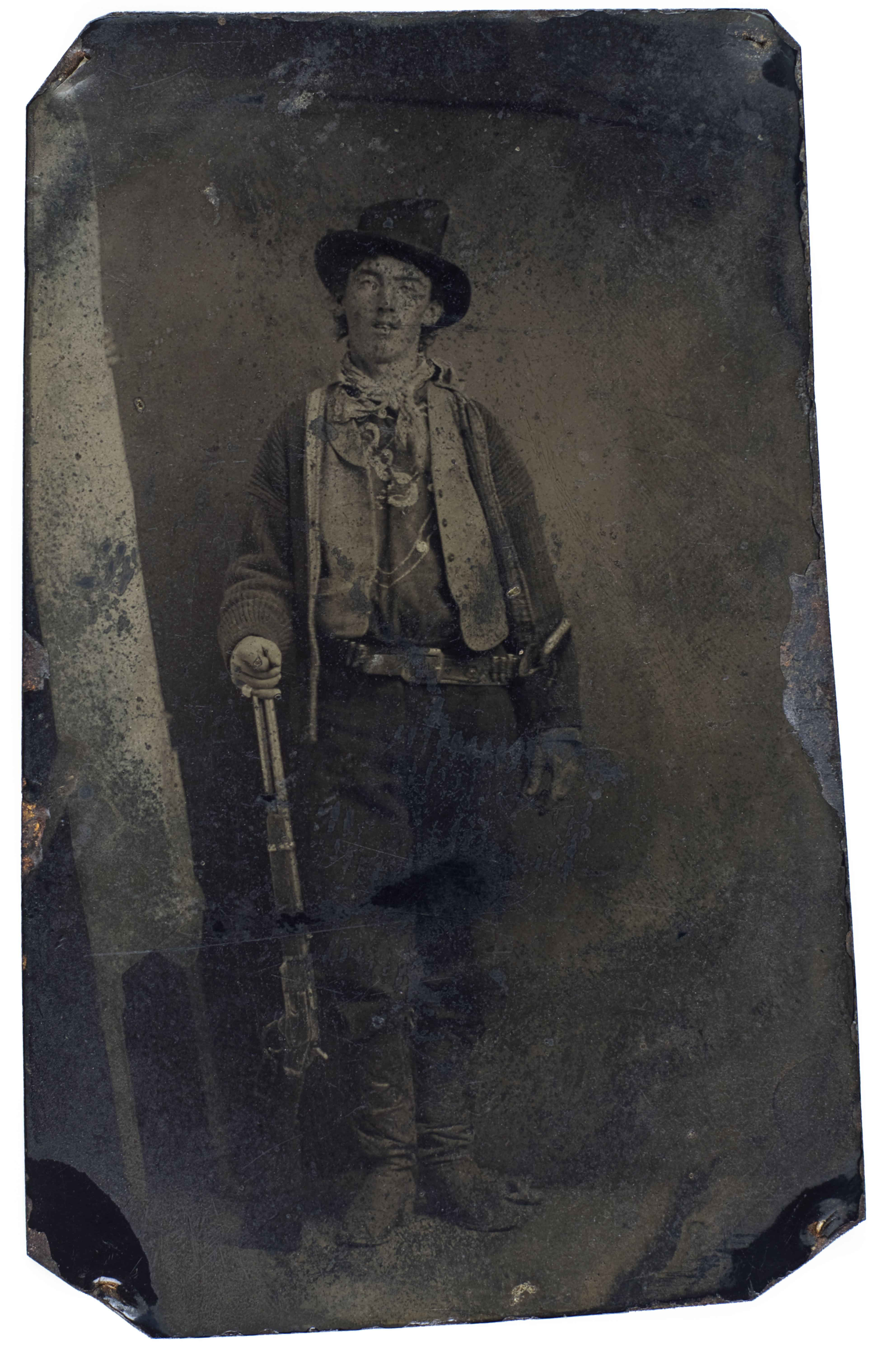 The only surviving authenticated portrait of Billy the Kid. This tintype portrait sold at auction in June 2011 for USD $2,300,000 to William Koch.